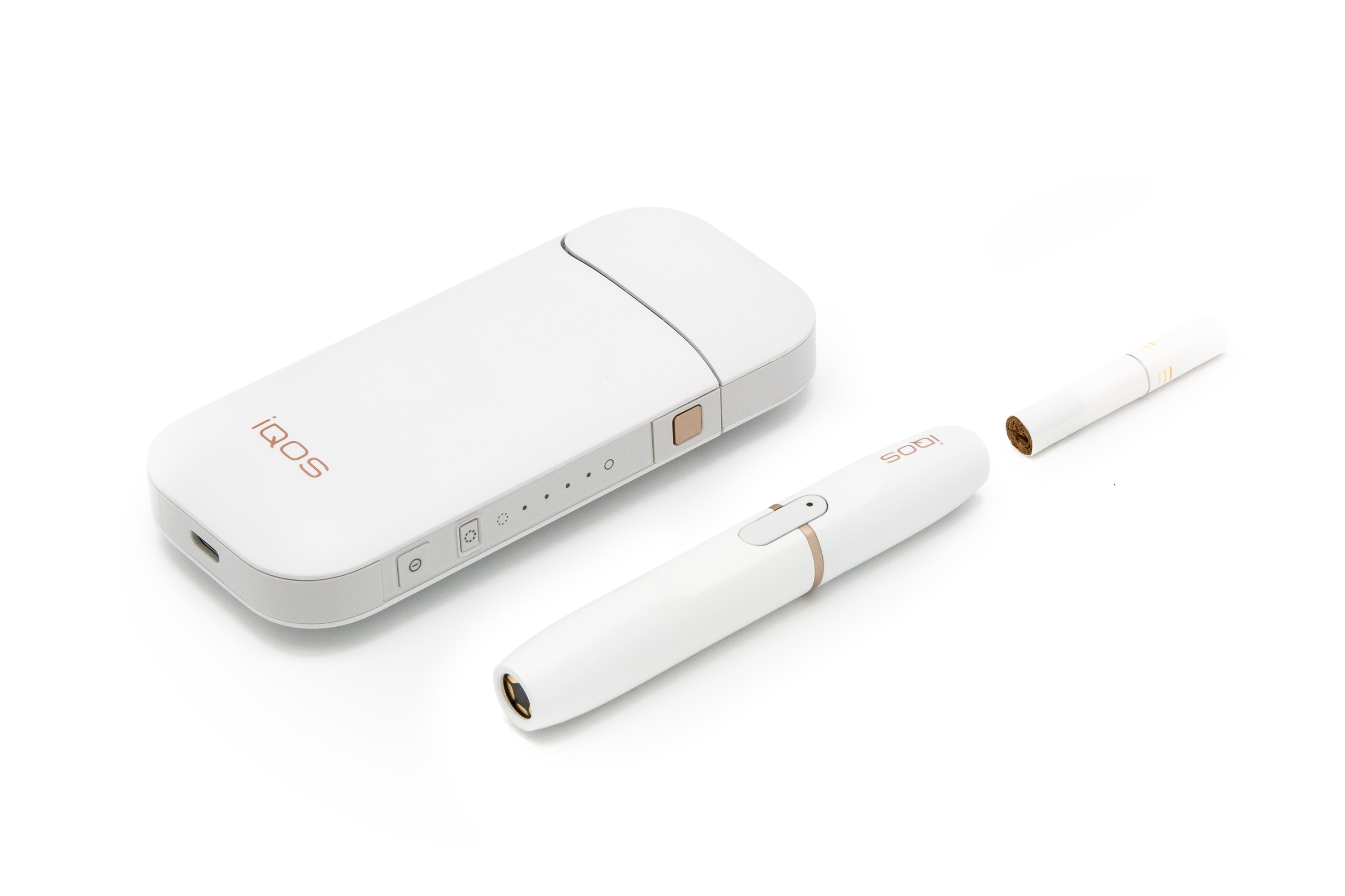 IQOS is a heat-not-burn type of device made of a charger (left) and a heating device into which is inserted a short cigarette-like tobacco stick.